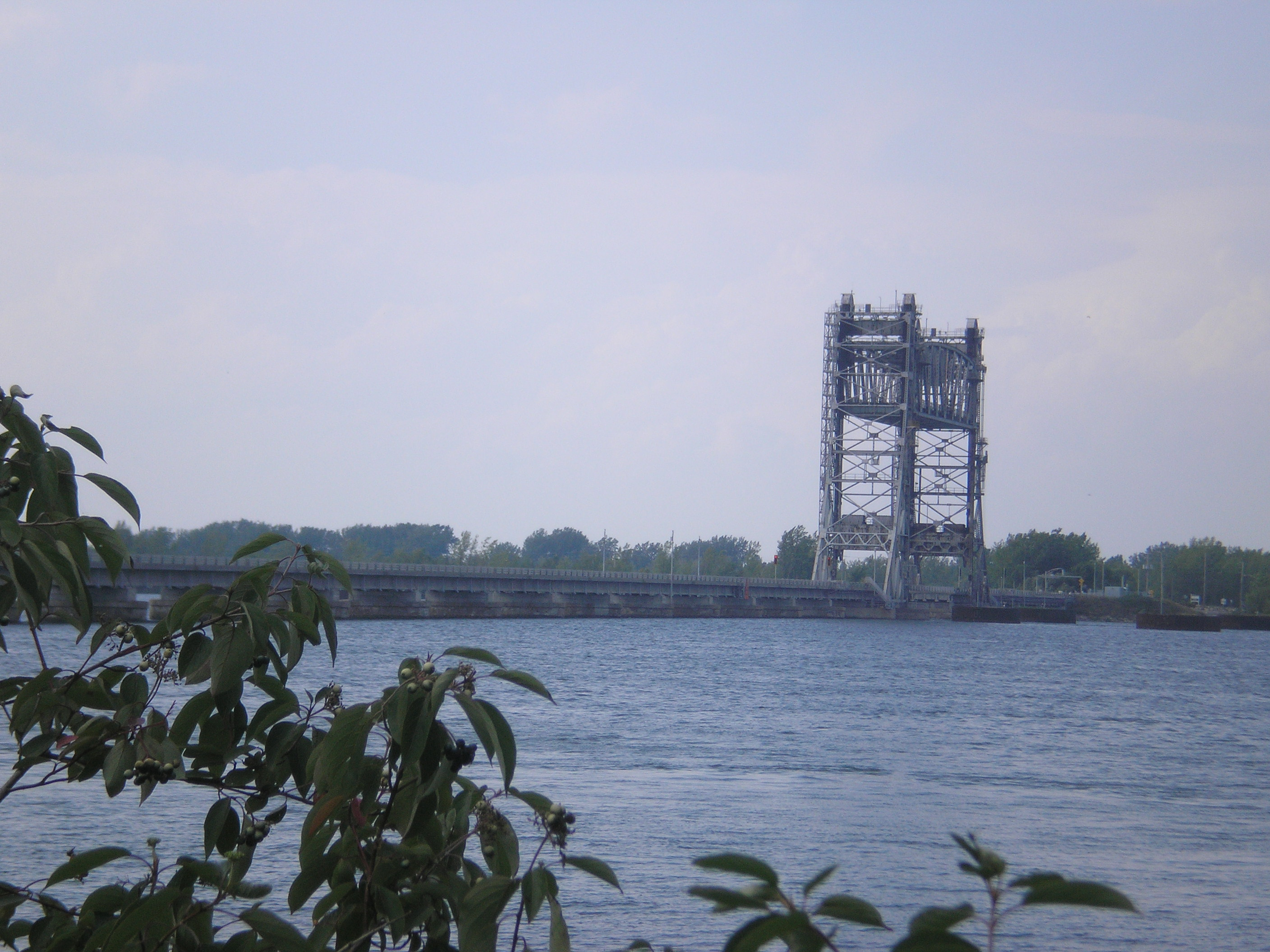 St. Louis Bridge, St-Louis-de-Gonzague QC